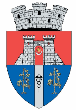 Coat of arms of Pâncota, Arad County, Romania.